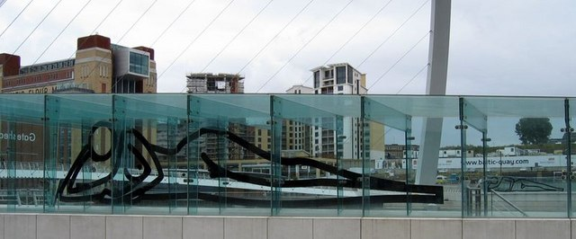 Gateshead Millennium Bridge Reclining nudes part of Baltic exhibition by Julian Opie